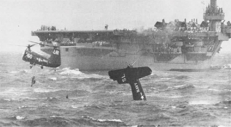 Recovery of the crew of a U.S. Navy Grumman AF-2 Guardian from Anti-Submarine Squadron 22 (VS-22) by a Piasecki HUP of Helicopter Utility Squadron 2 (HU-2) after the plane was forced to ditch immediately after launching in 1953. The parent escort carrier USS Block Island (CVE-106) is standing by in the background.